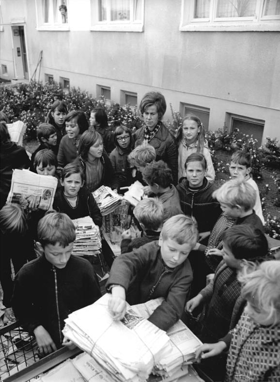 East German Young Pioneers in Neubrandenburg-Ost collect recyclable paper, the proceeds to be donated to the preparation of the 1973 world Festival of Youth in Students in Berlin